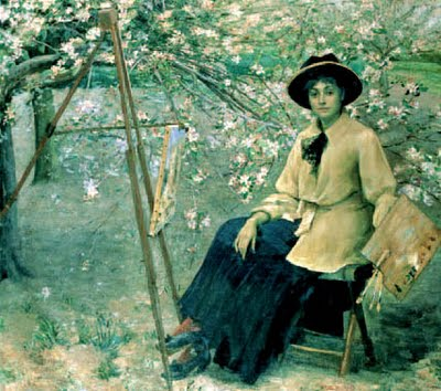 Selfportrait